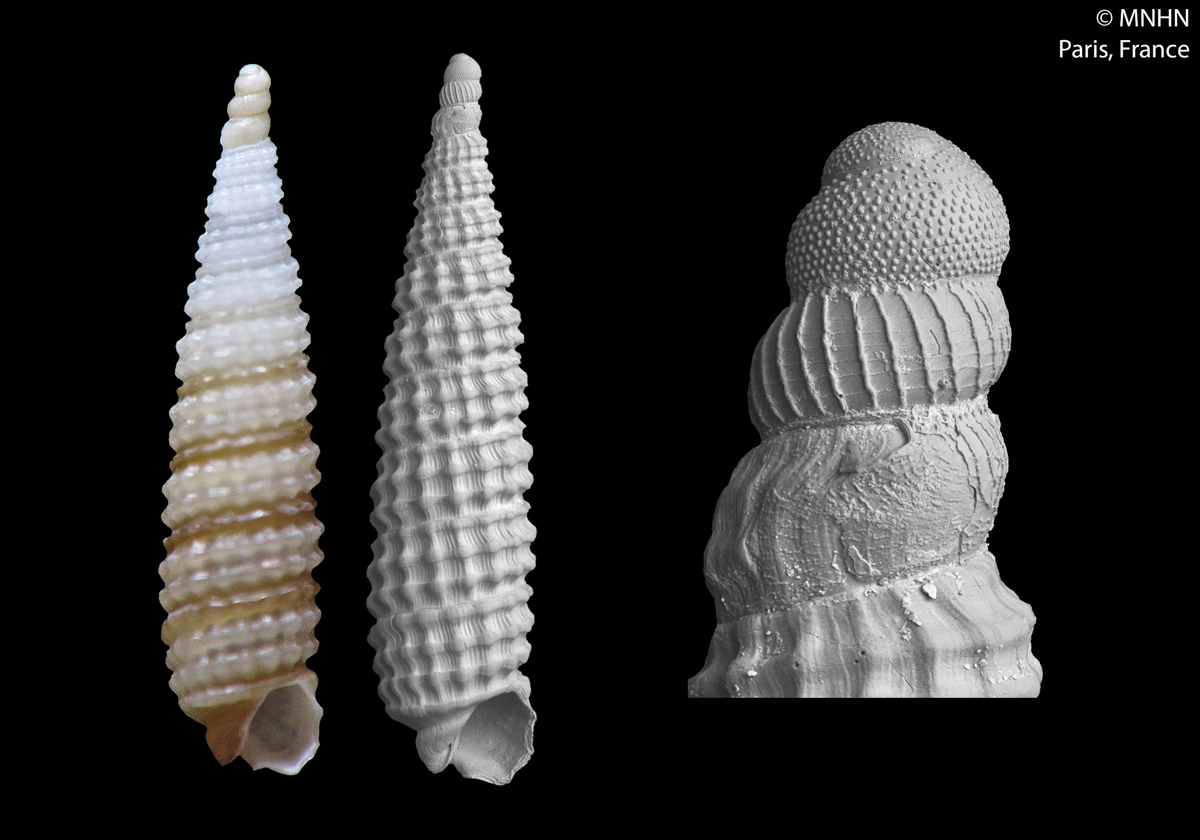 Prolixodens whaaporum Cecalupo & Perugia, 2017, holotype.